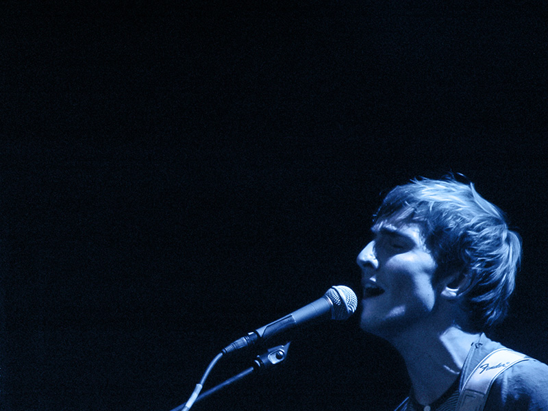 Helgi Jónsson in Denmark